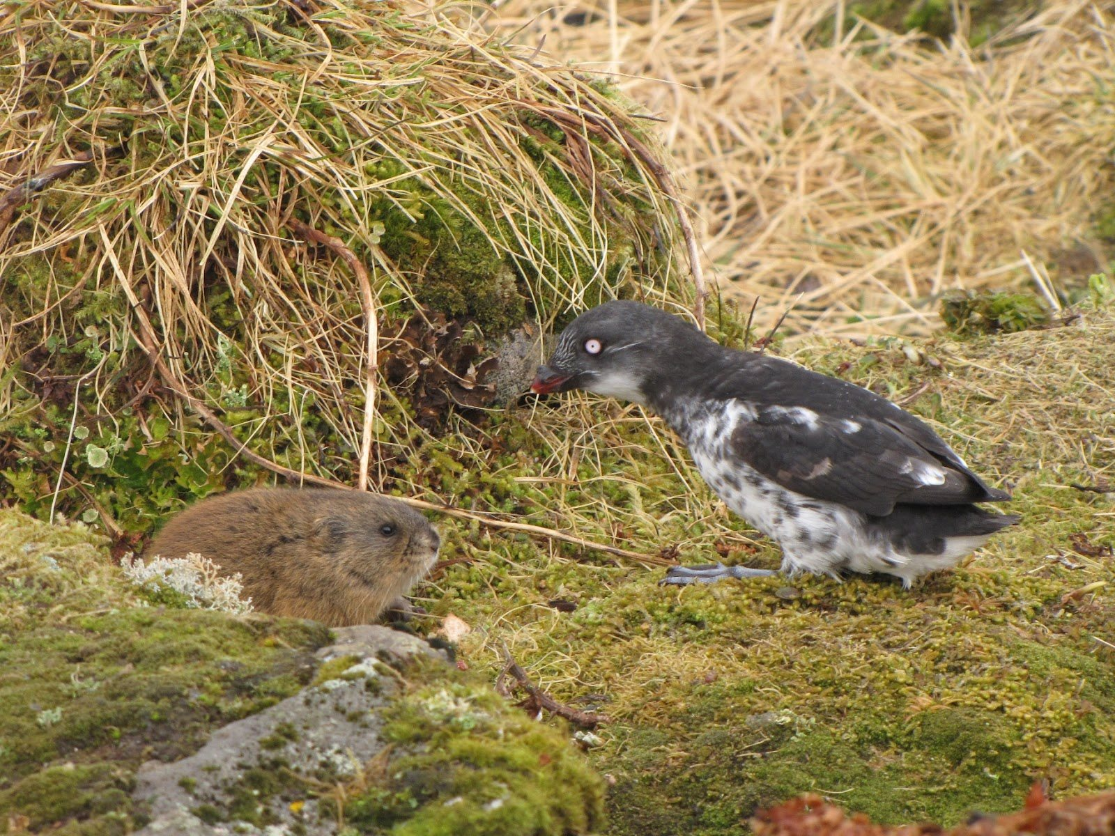 St. George Lemming and Least Auklet on St. George by Lauren Scope/USFWS